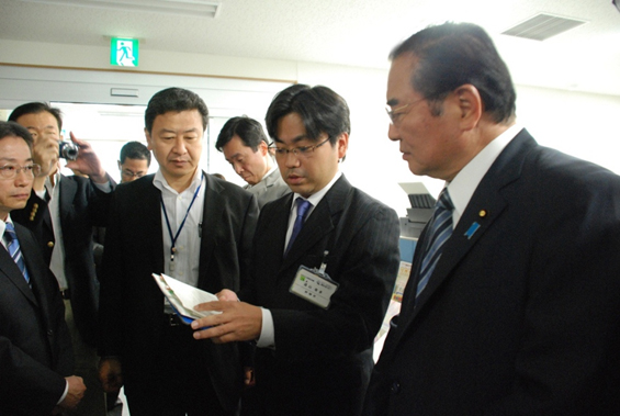 Kenji Yamaoka, Minister of State for Consumer Affairs and Food Safety, inspected Tōkyō Metropolitan Comprehensive Consumer Center in Shinjuku Ward, Tōkyō Metropolis on October 19, 2011. (For terms of use, see 利用規約｜消費者庁.)